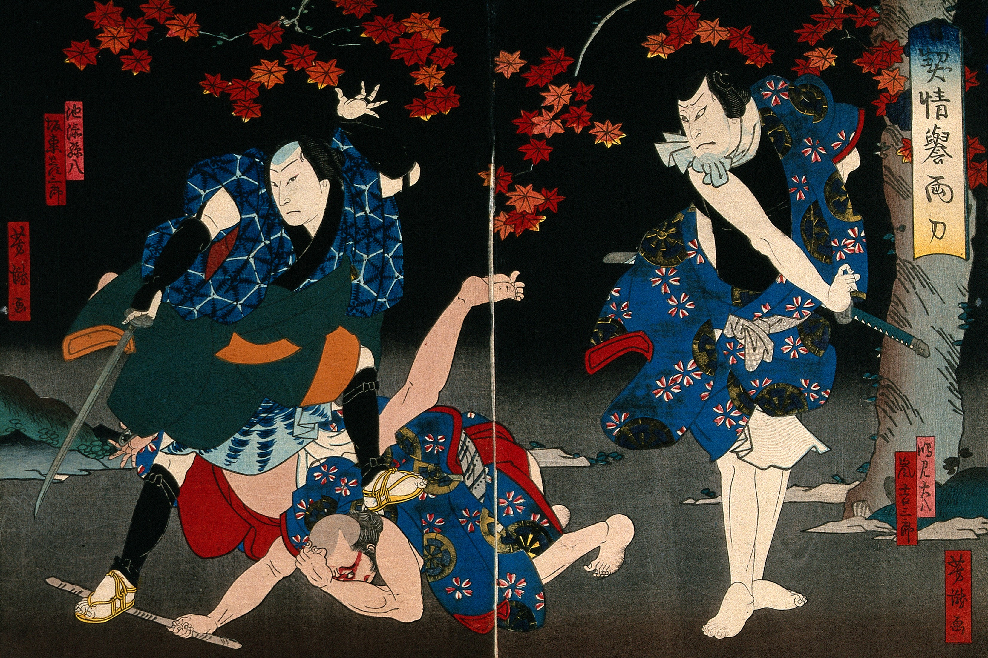 Actors fighting under a red maple tree. Colour woodcut by Yoshitaki, early 1860s. Iconographic Collections Keywords: Yoshitaki